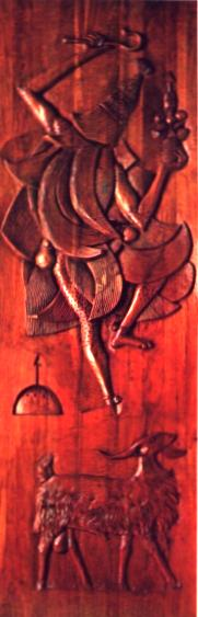 Omolu - sculpture of Carybé in wood, exibit in the Museum Afro-Brazilian, Salvador, Bahia, Brasil